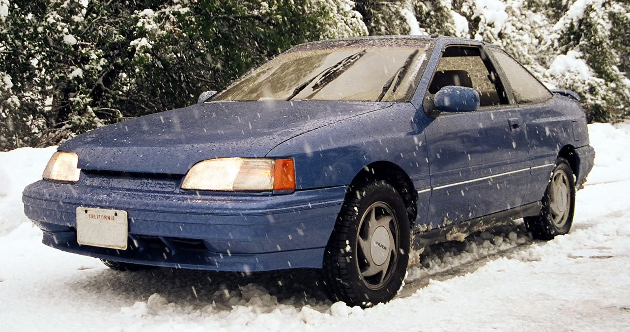 1991 Hyundai Scoupe in San Gabriel Mountains, on Feb 25, 2003.